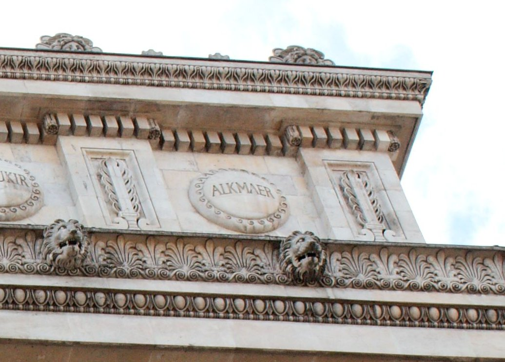 Inscription of Alkmaer in the top rim of the Arc de Triomphe